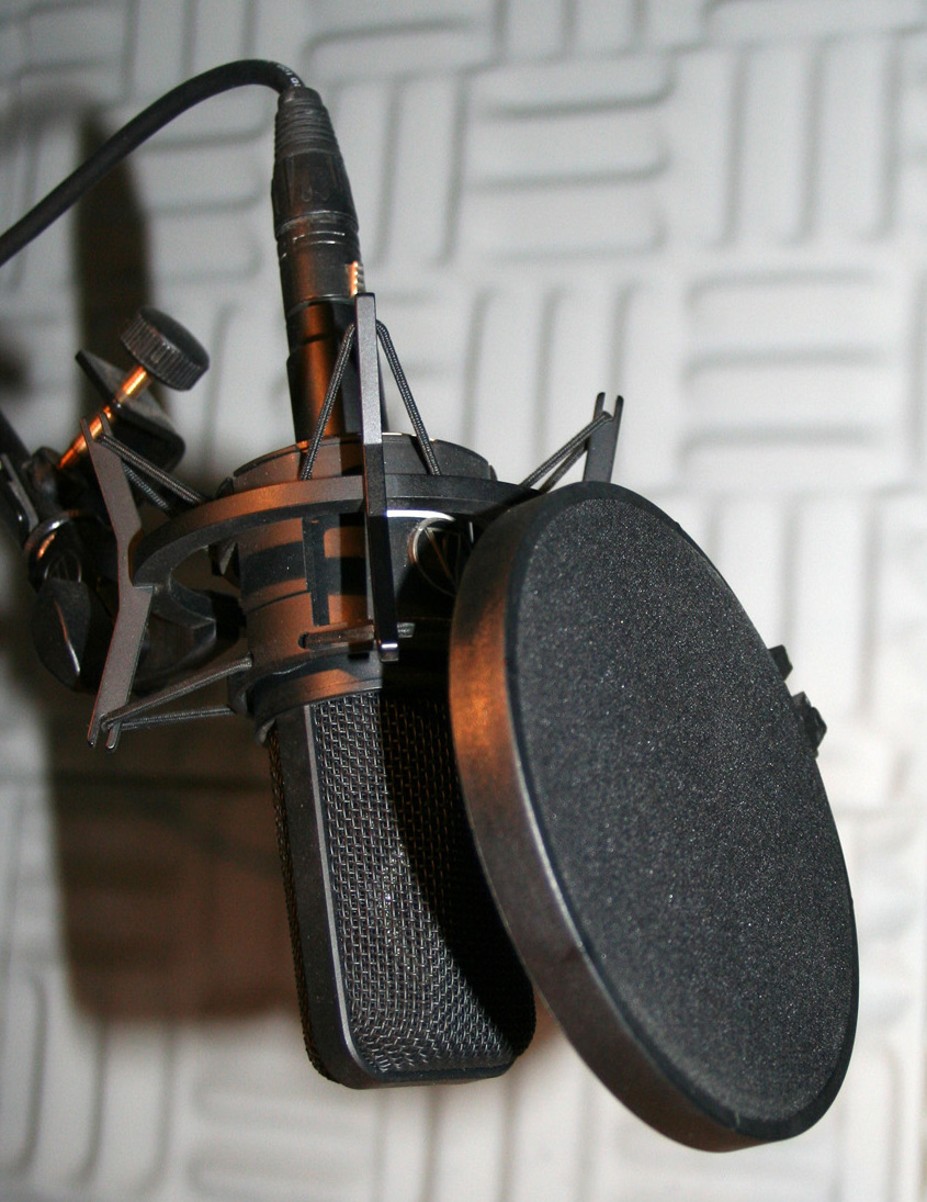 Studio condensor microphone with pop shield